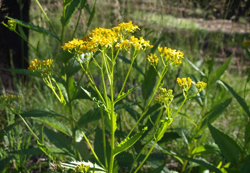 Senecio linearifolius - Fireweed Groundsel at Lake Mountain, Victoria, Australia